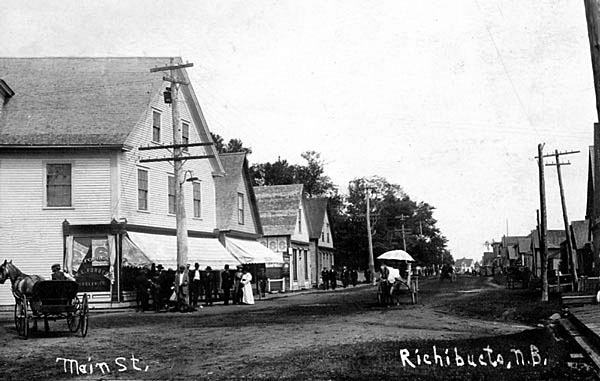 Post card of the Main St. in Richibucto, New Brunswick, circa 1910.